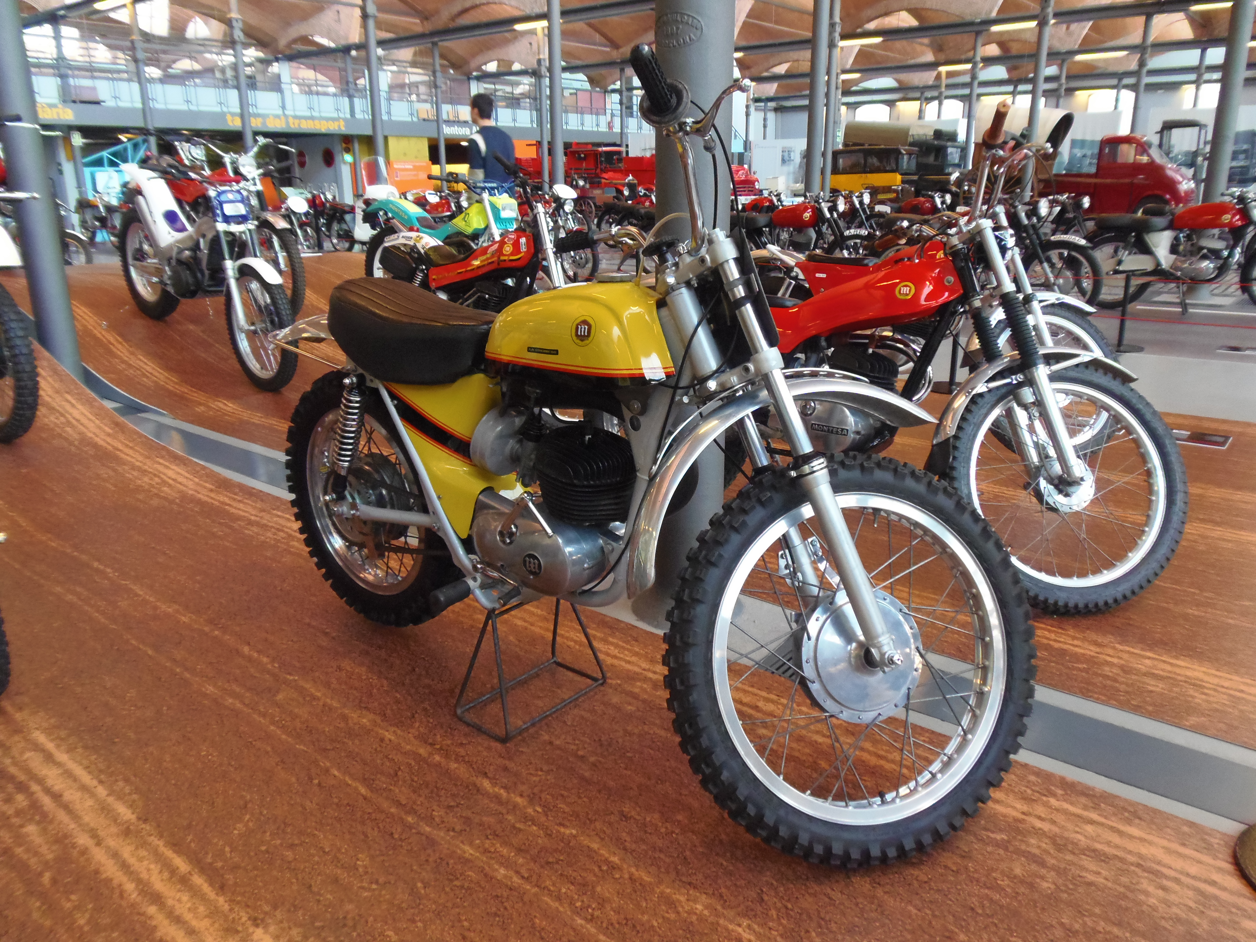 Montesa LA Cross 66, 1966